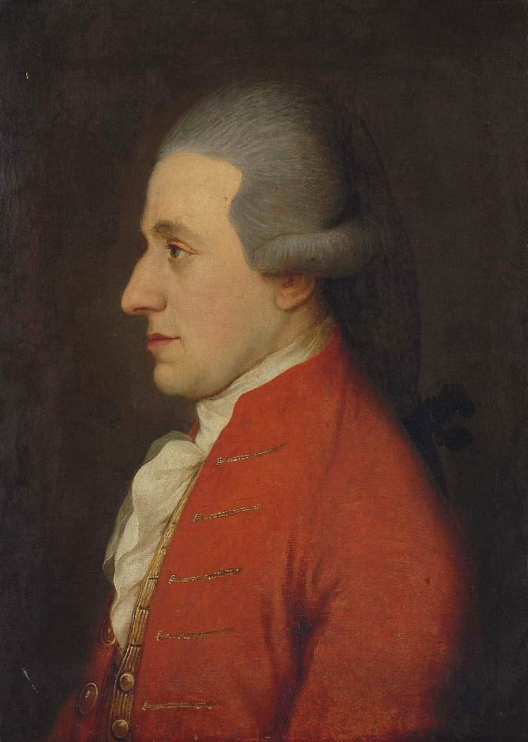 Authenticity not proven.